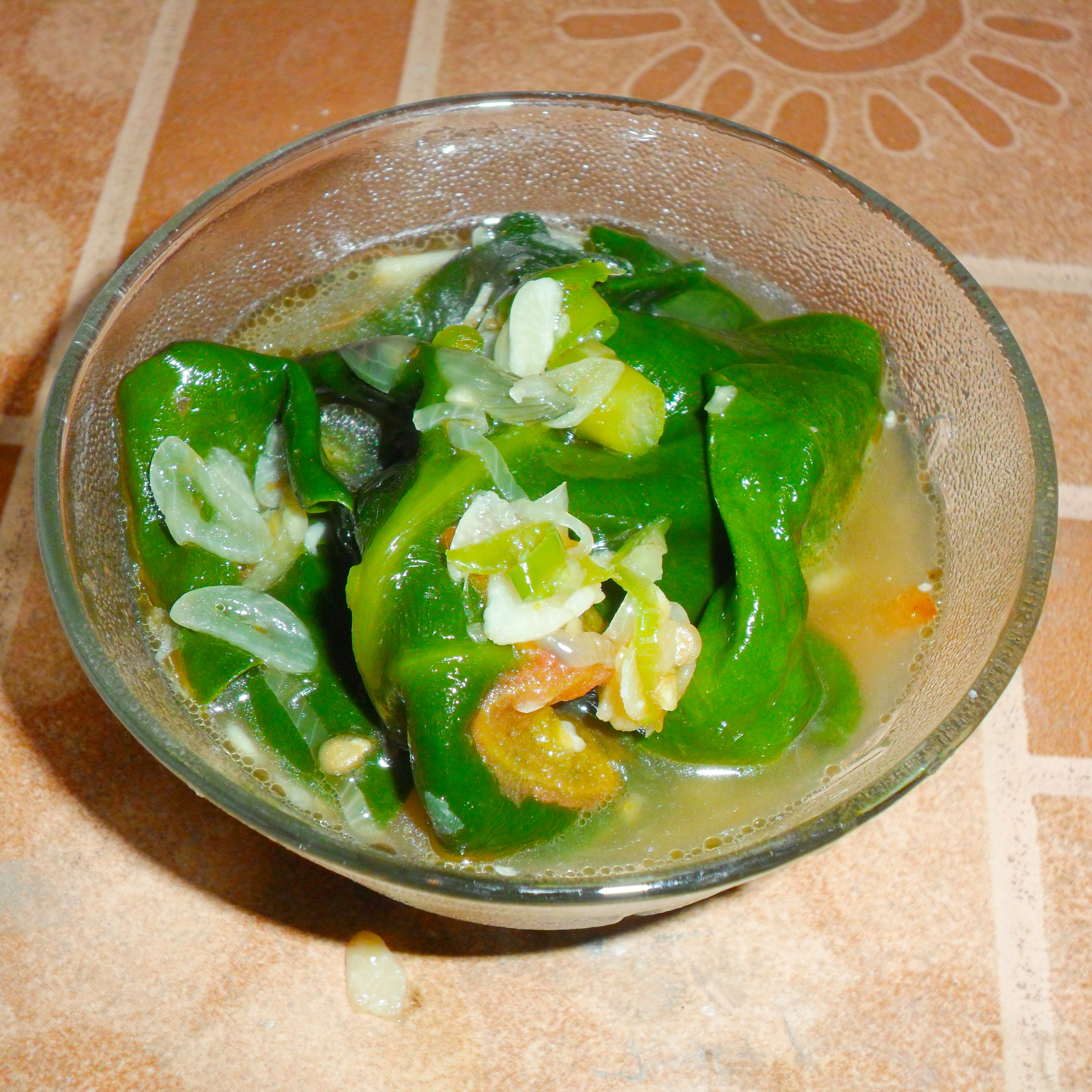 Spinach malabar dish Jawa: ꦠꦸꦩꦶꦱ꧀ꦒꦼꦤ꧀ꦢꦺꦴꦭ